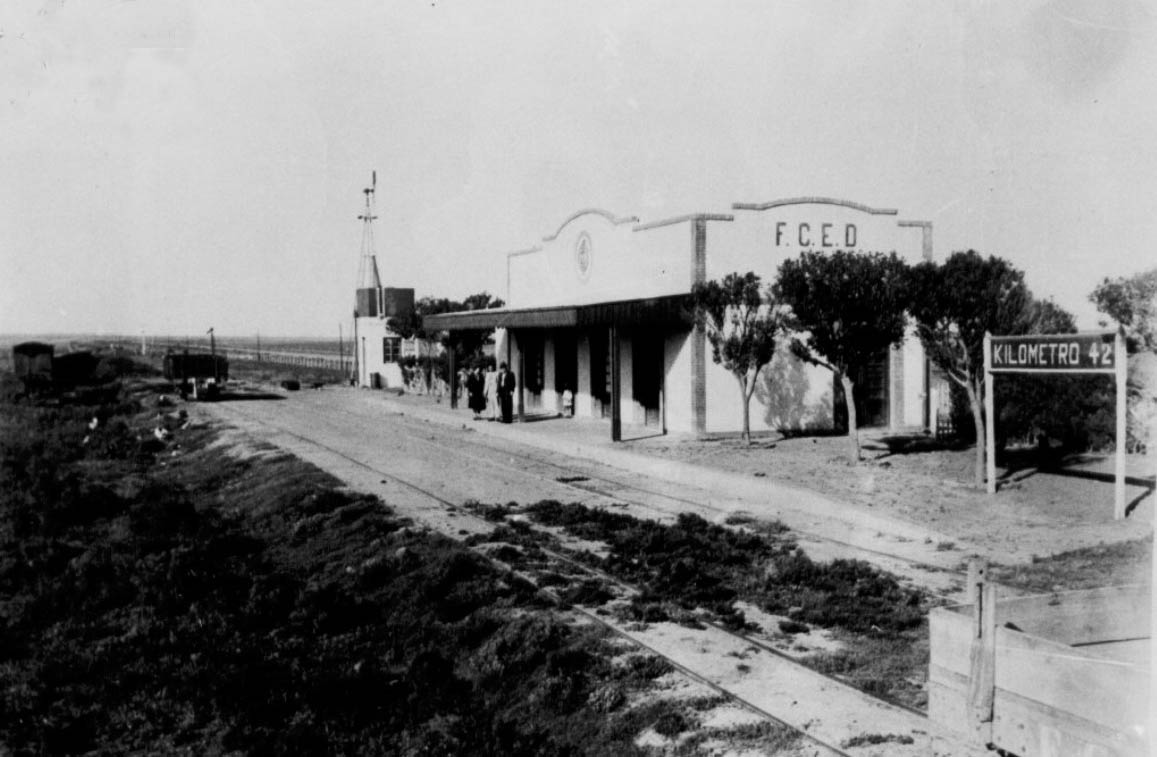 The Kilómetro 42 station of Ferrocarril Depietri that run from San Pedro to Arrecifes, Buenos Aires Province.